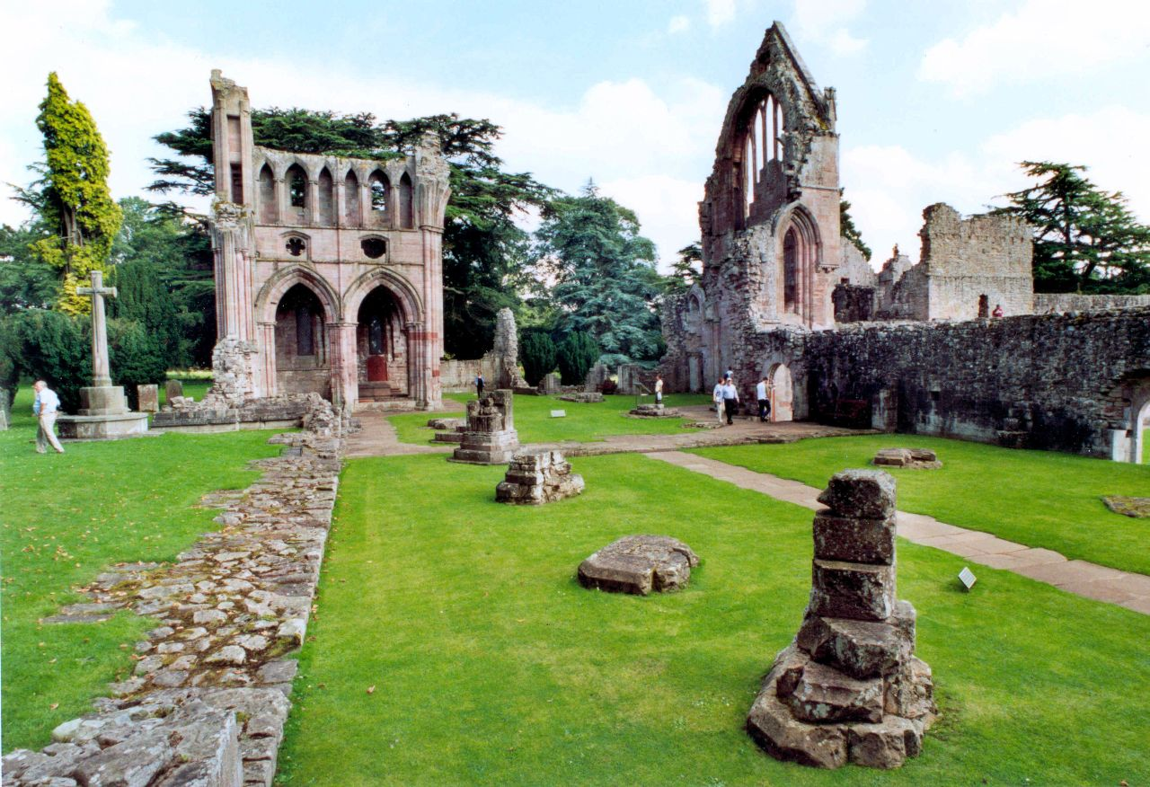 Dryburgh Abbey in Schottland